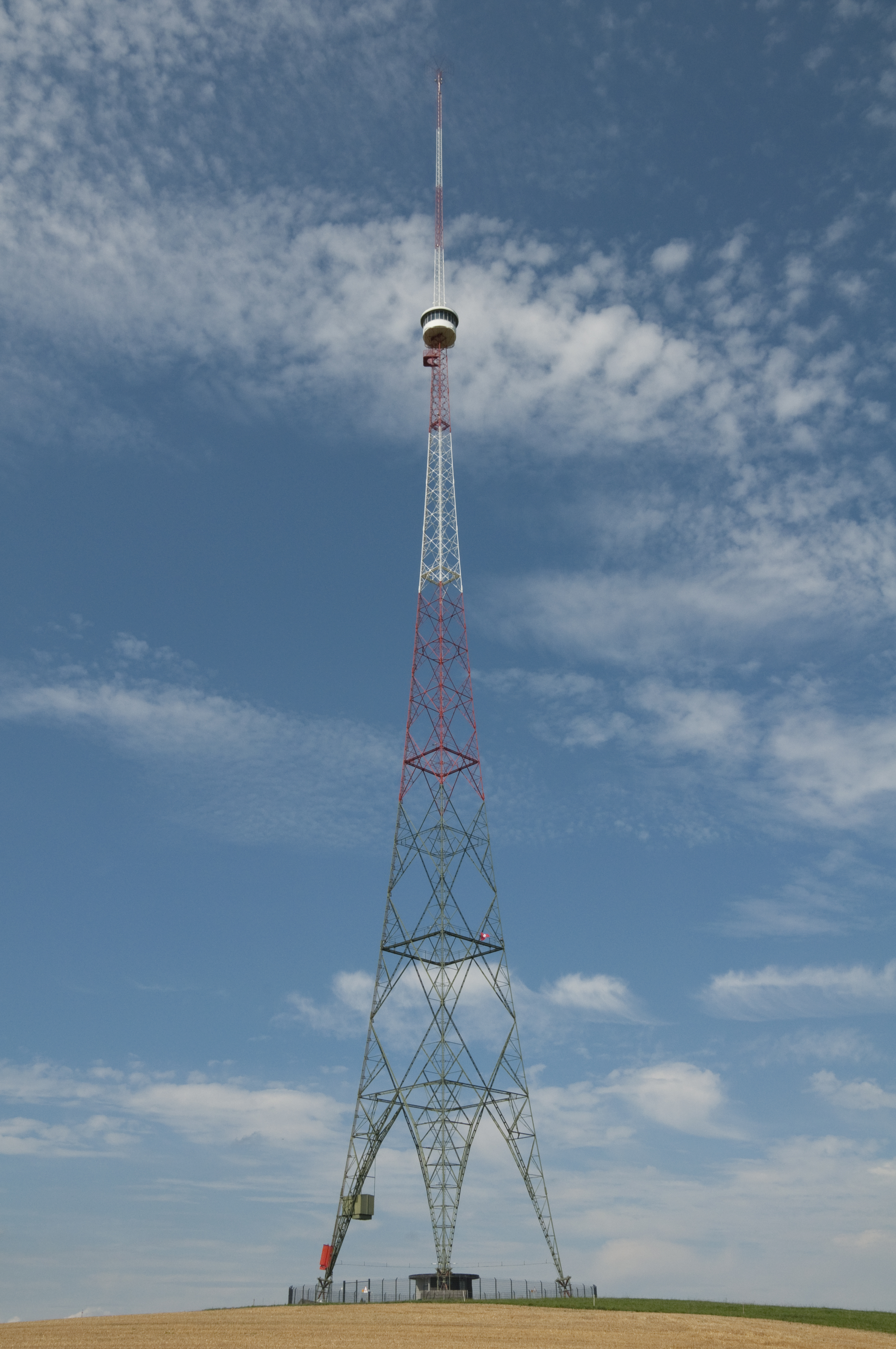 Blosenbergturm (total height 217m), Beromünster (seen from Southeast)